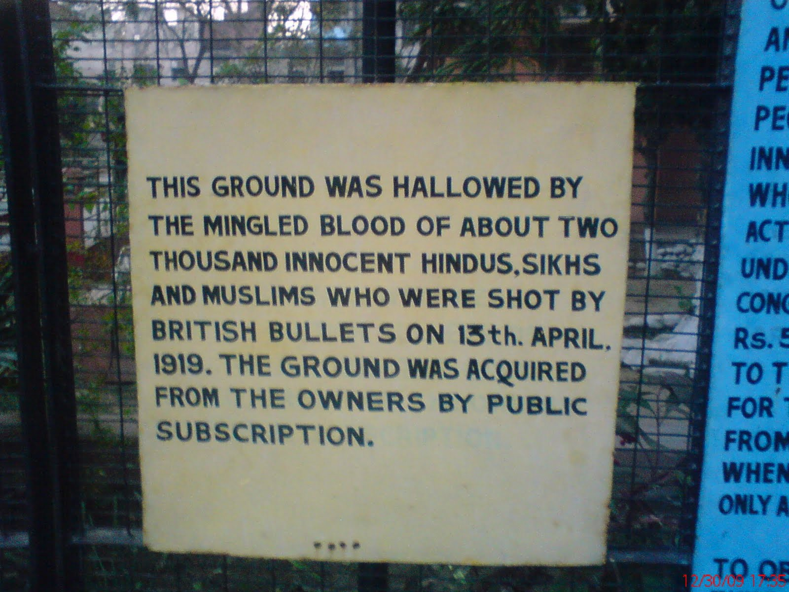 Sign at Jallianwala Bagh